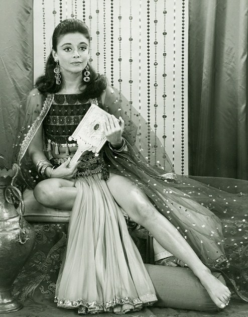 Anna Maria Alberghetti in the TV musical Kismet - publicity still (cropped : see source)